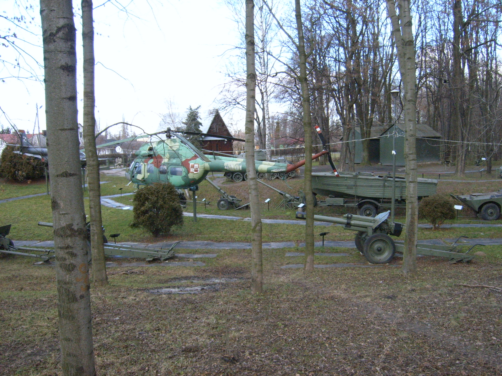 Arsenal Museum in Zamość - former outdoor exposition